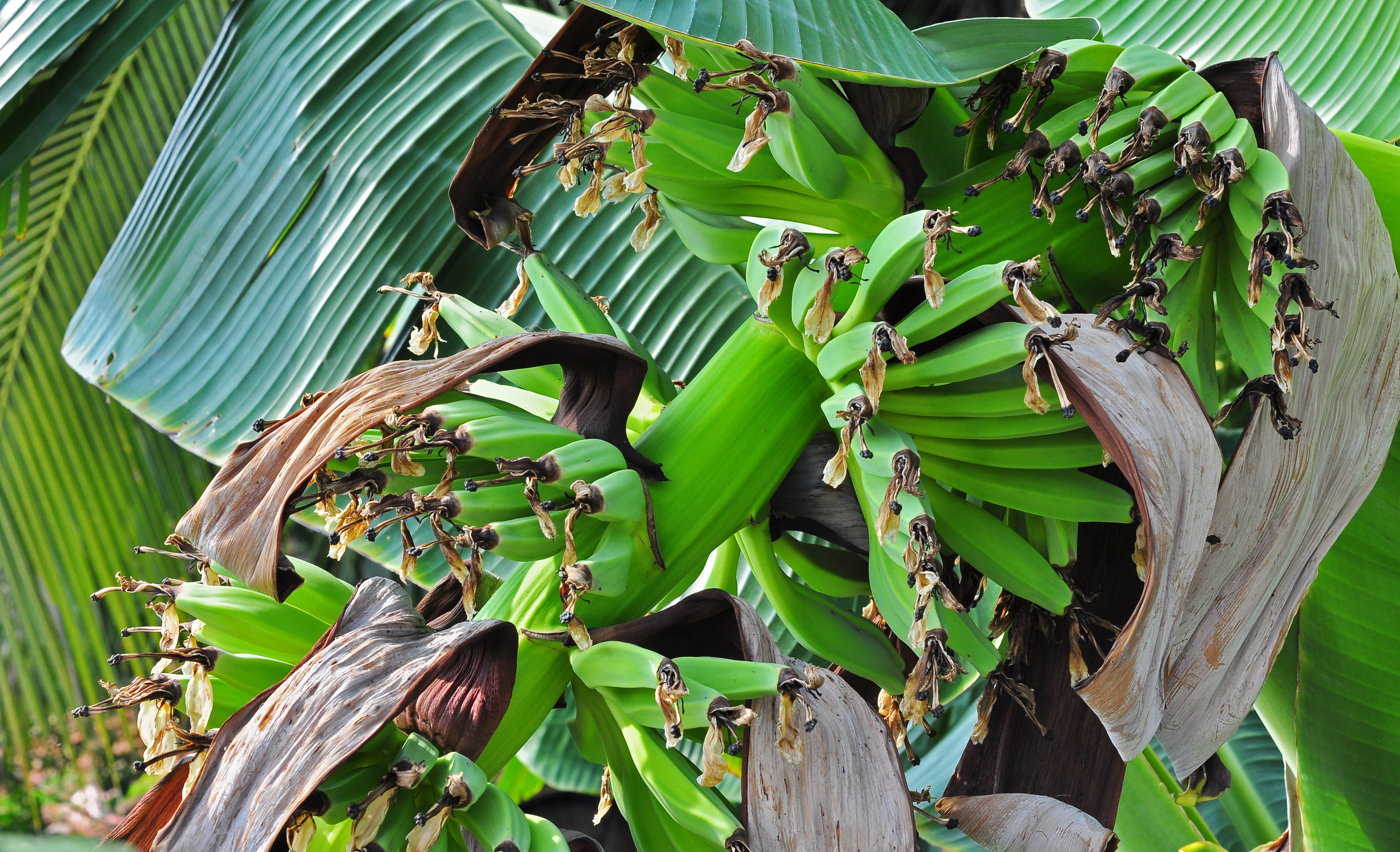 Musa acuminata is a species of wild banana native to Southeast Asia. Taken at Burdwan, West Bengal, India.